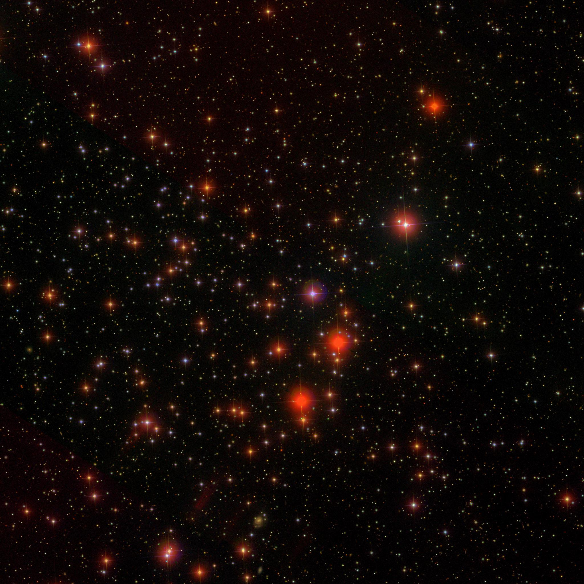 Angle of view: 27' × 27' (0.792" per pixel), north is up.